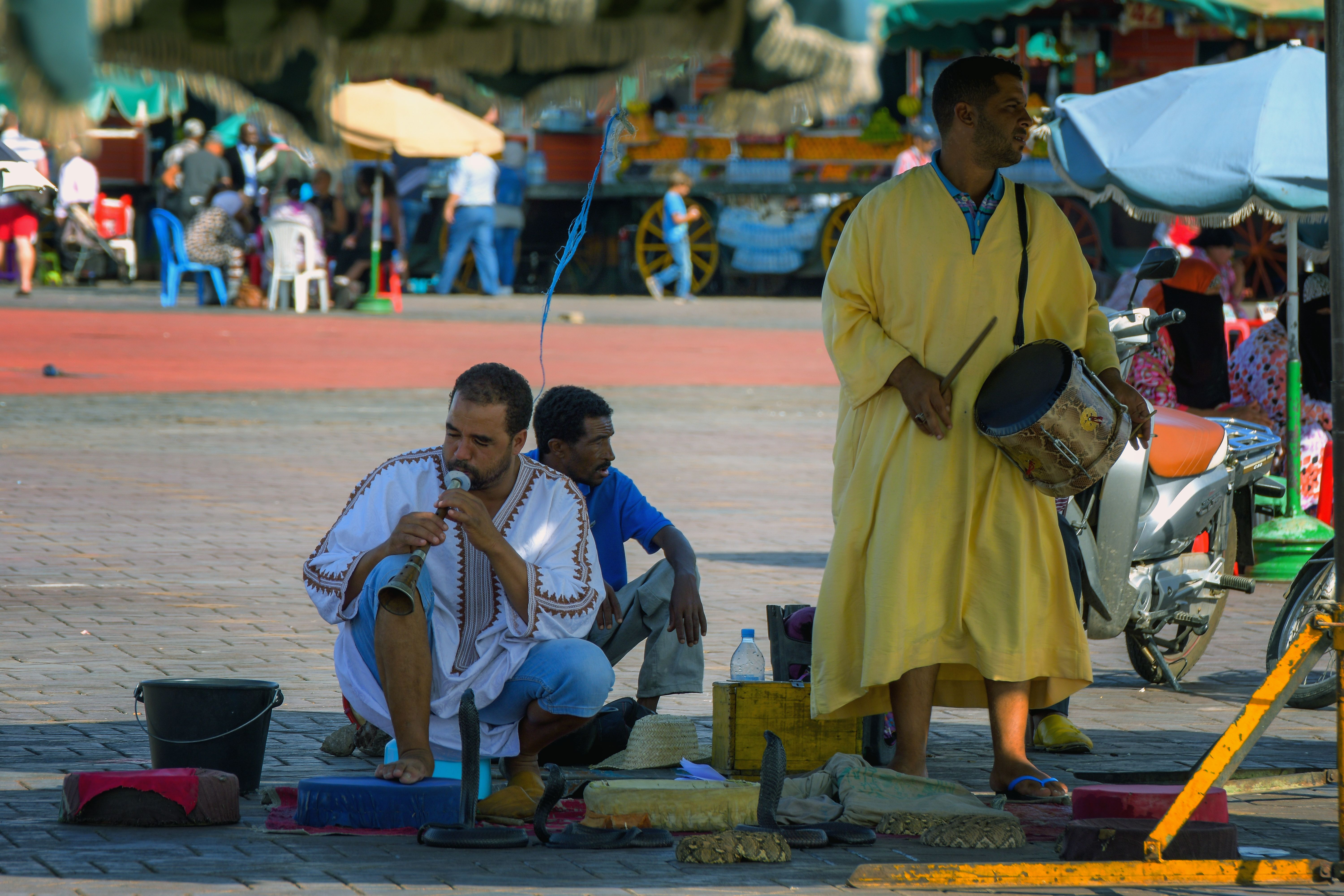 Picture from a series captured in October 2017 in Marocco showing some of the daily activities of the people in Essaouira and Marrakech This is an image of "African people at work" from Morocco